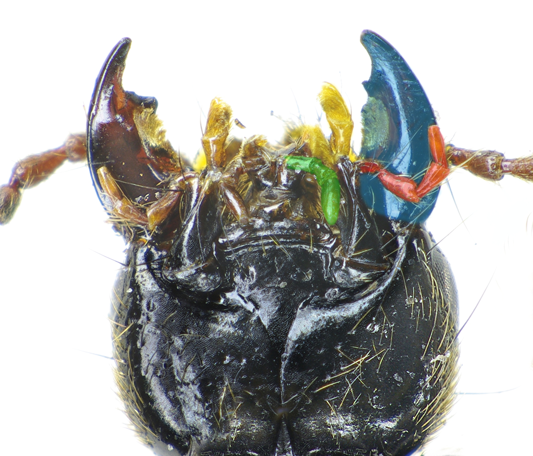 Ocypus aeneocephalus underside of head, right side partly couloured. green: labial palp bent back; red: maxillary palp; blue: mandibel; yellow: maxilla